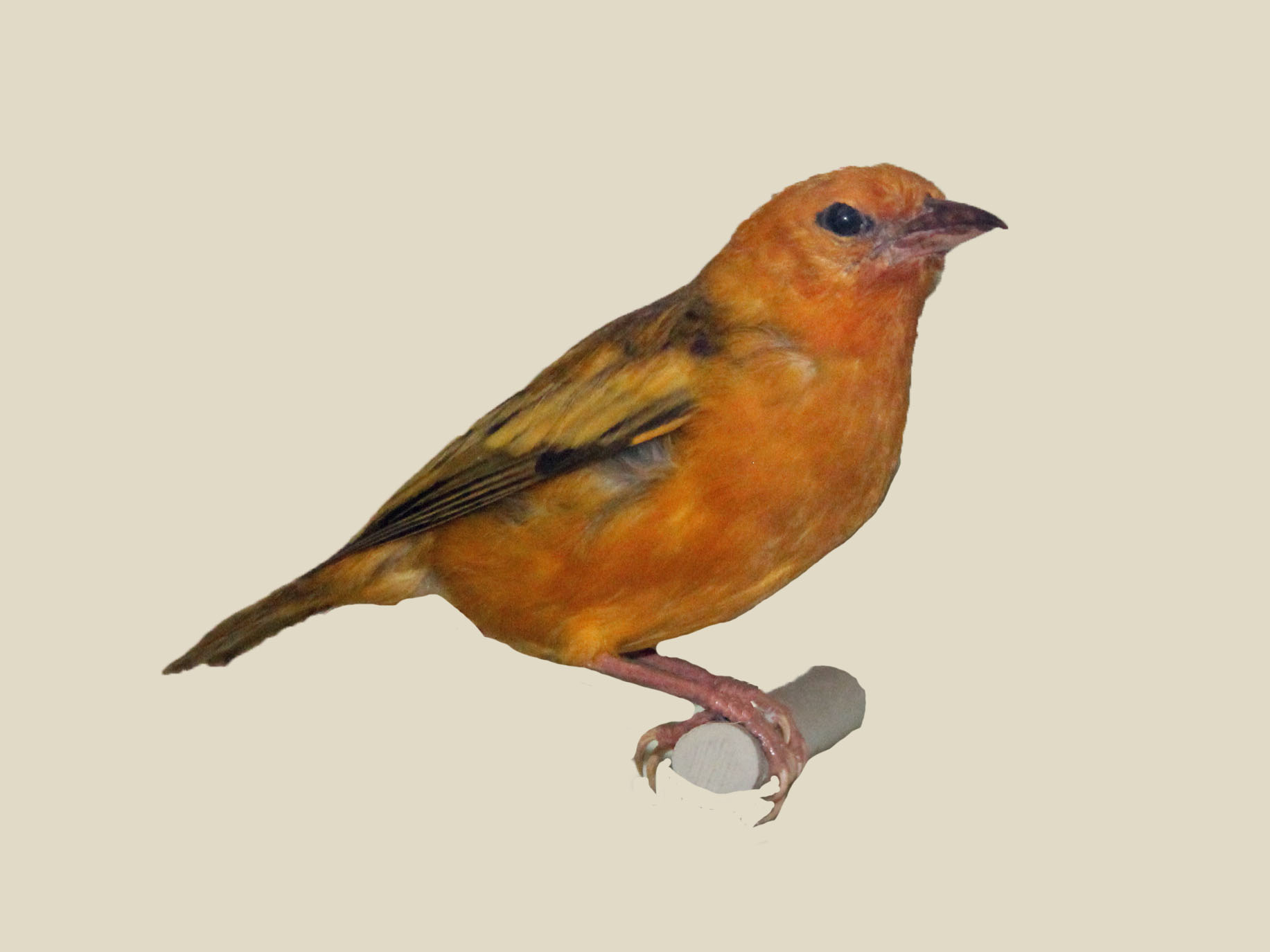 Orange Weaver (Ploceus aurantius). Photograph of a specimen at Nairobi National Museum in Nairobi, Kenya